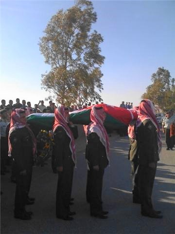 Fadel Mohammed Ali funeral